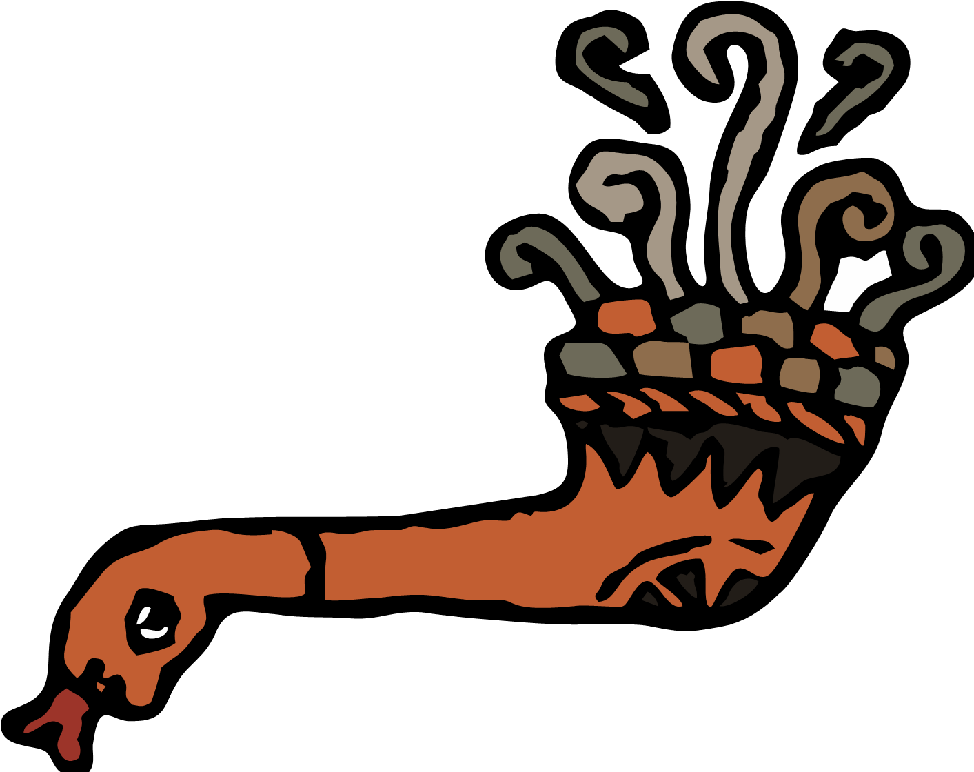 Glyph of San Jerónimo Tlamaco as is shown in the 8th page of the Boturini Codex